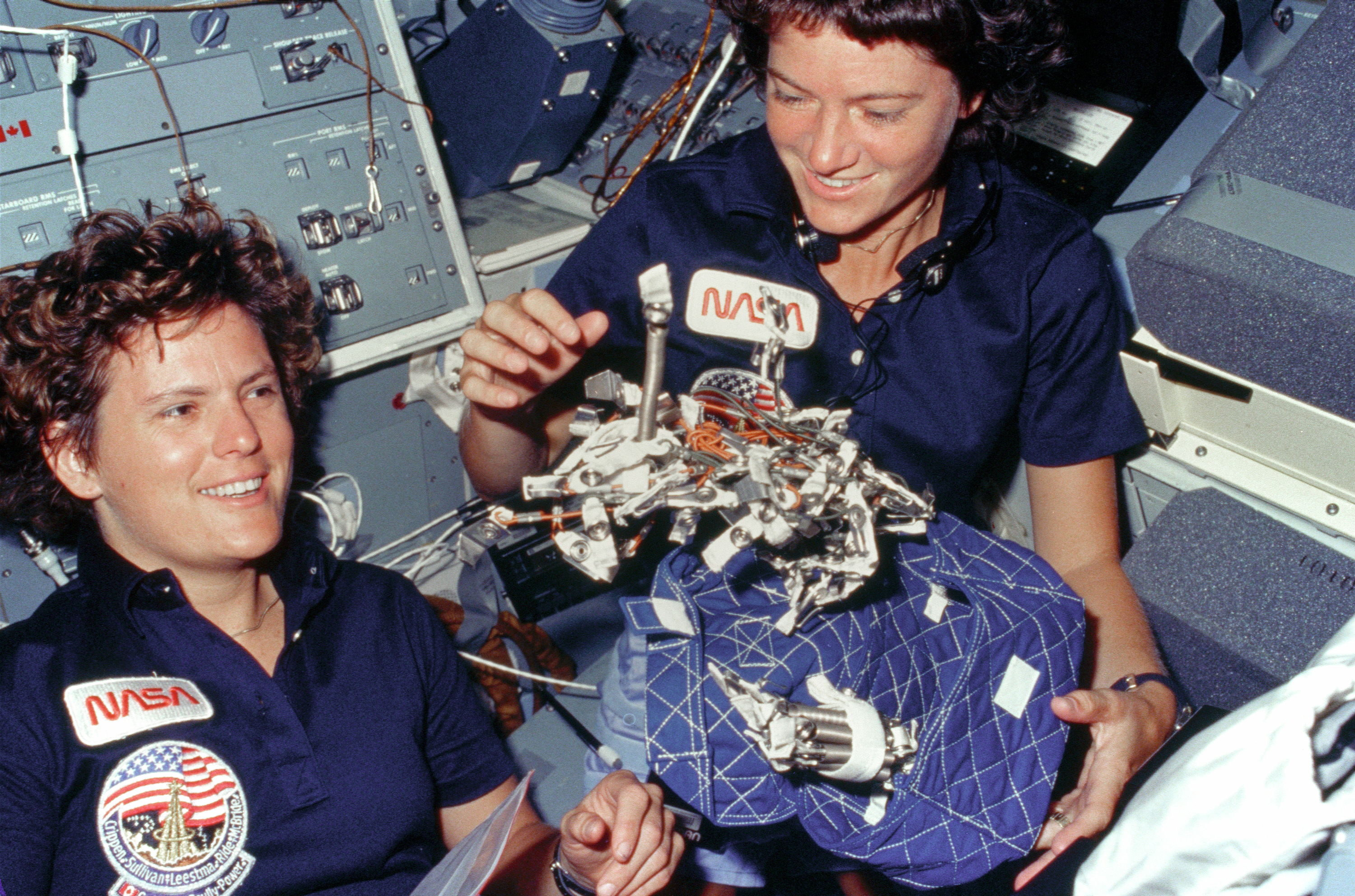 Astronauts Kathryn D. Sullivan, left, and Sally K. Ride display a "bag of worms." The "bag" is a sleep restraint and the majority of the "worms" are springs and clips used with the sleep restraint in its normal application. Clamps, a bungee cord and velcro strips are other recognizable items in the "bag."